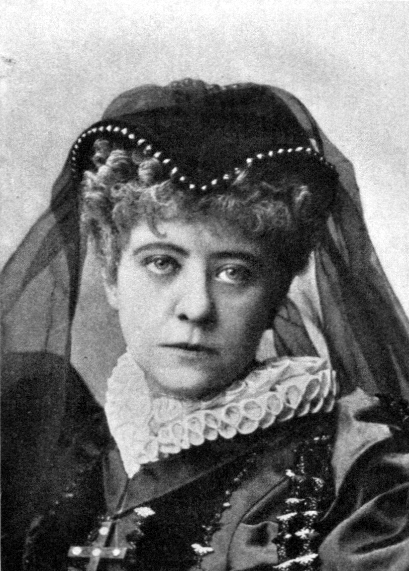 Adele Sandrock (1863–1937), German actress. After a successful theatrical career, she became one of the first German film stars